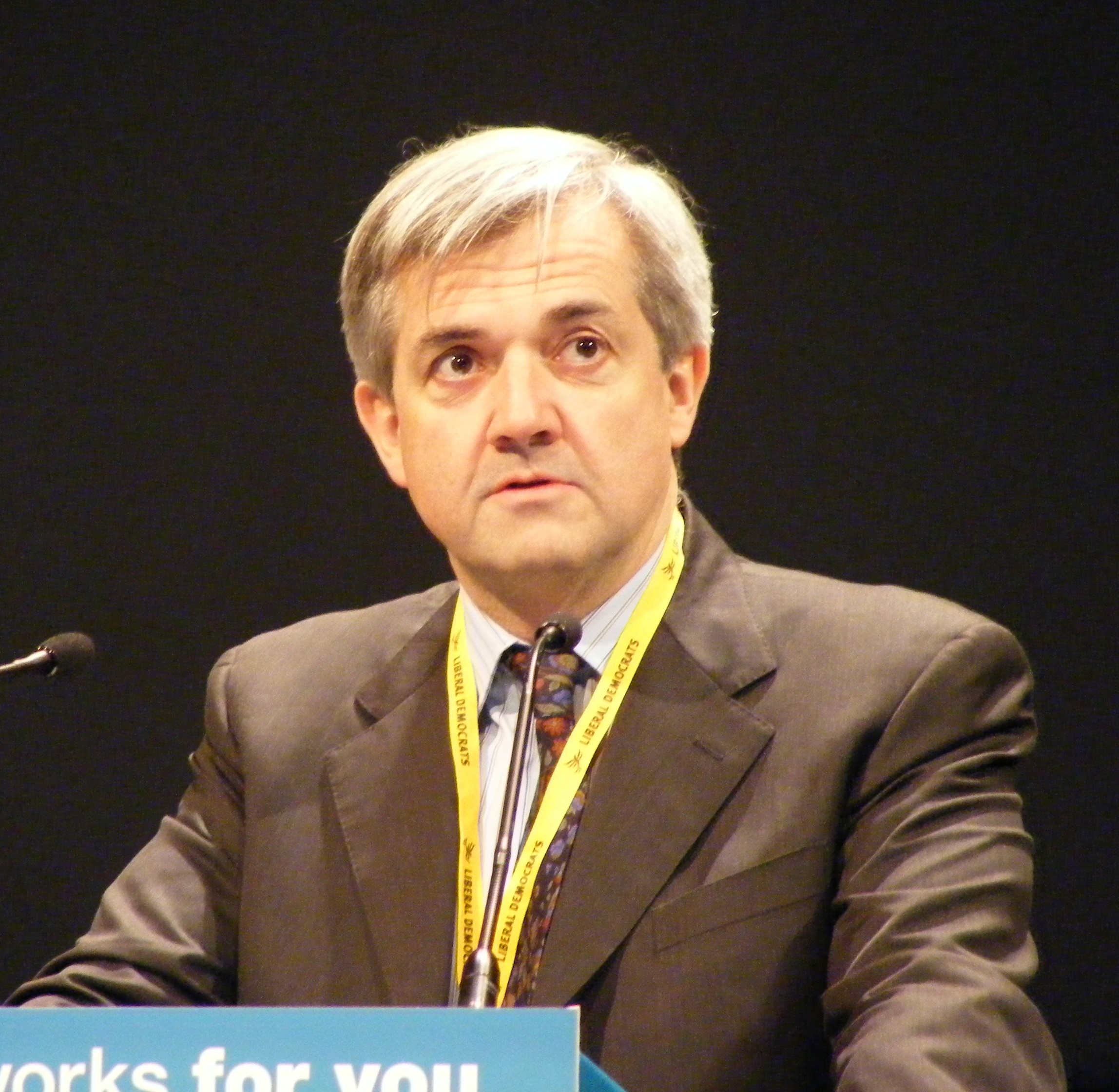 Chris Huhne at the Liberal Democrat Spring Conference in 2010.